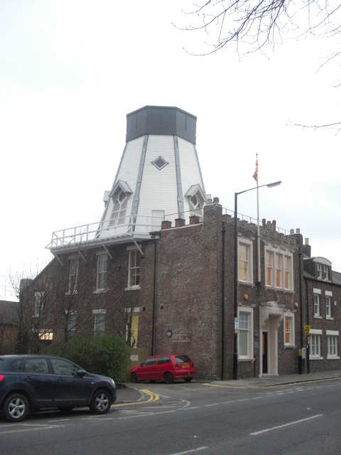 The converted Chimney Mill, Newcastle upon Tyne